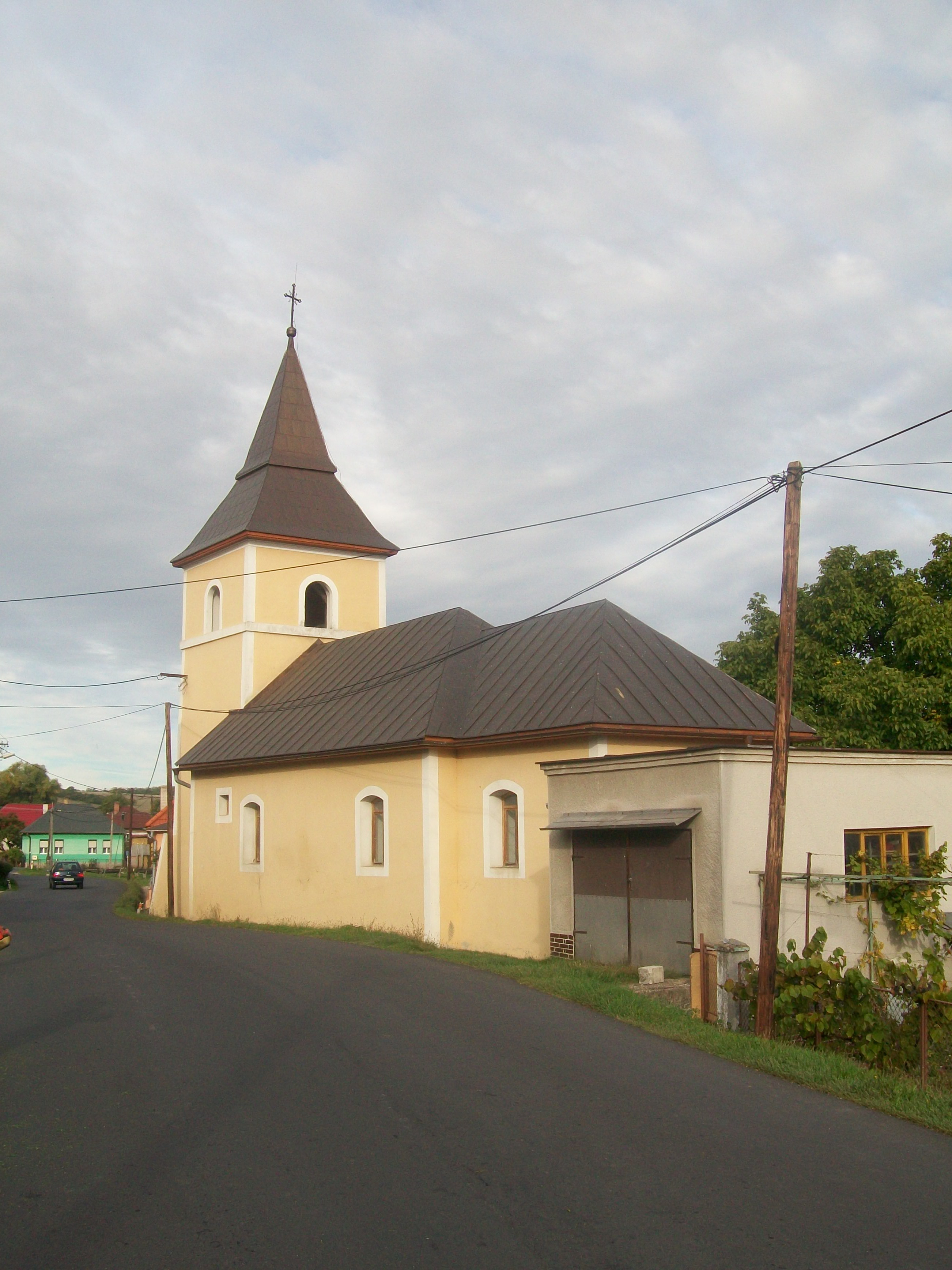 Evangelical Baroque-Classicist church built in 1776 in Veľké Straciny